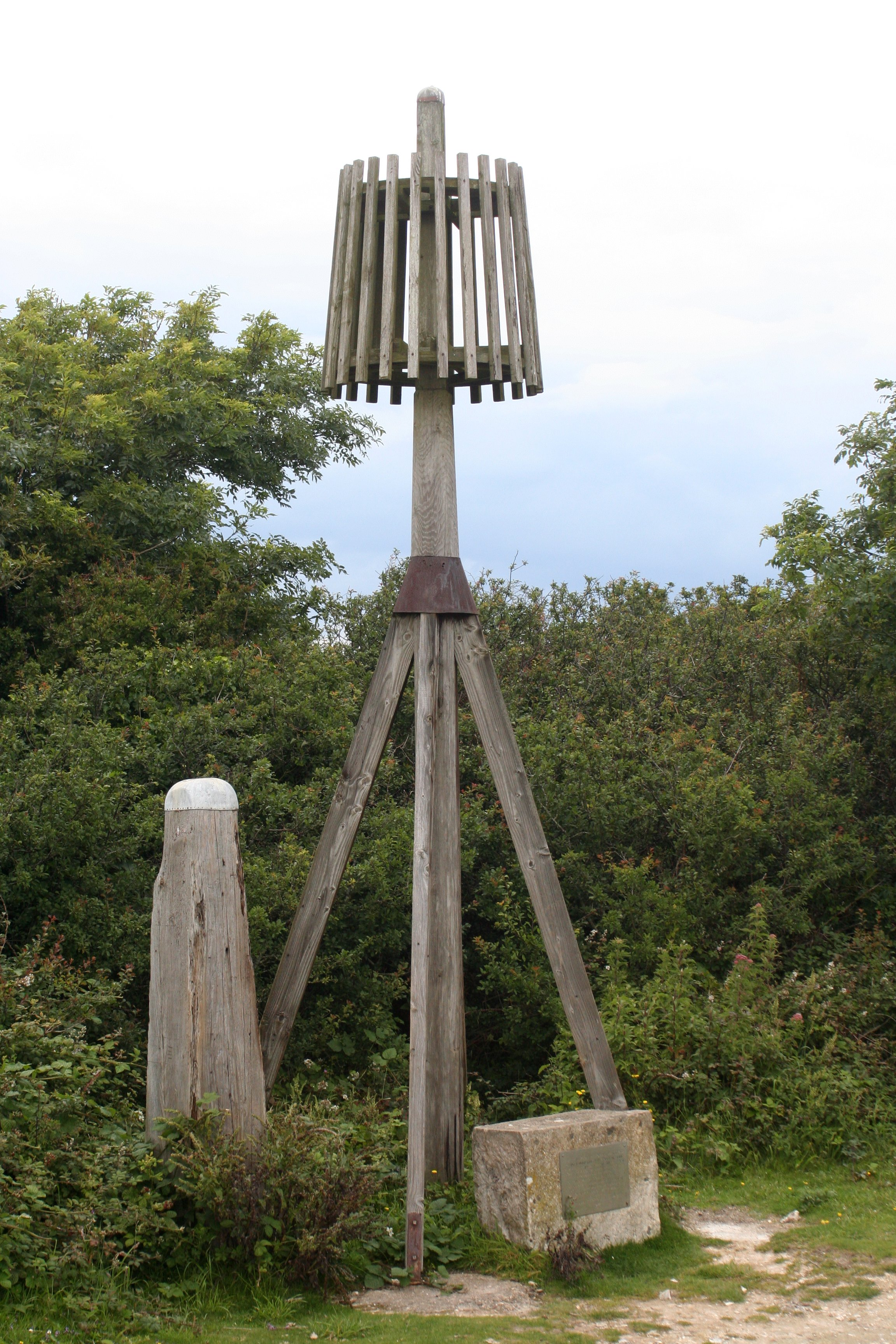 Replica of the "Nodes Beacon", which formerly stood on the highest point of Tennyson Down, Isle of Wight.